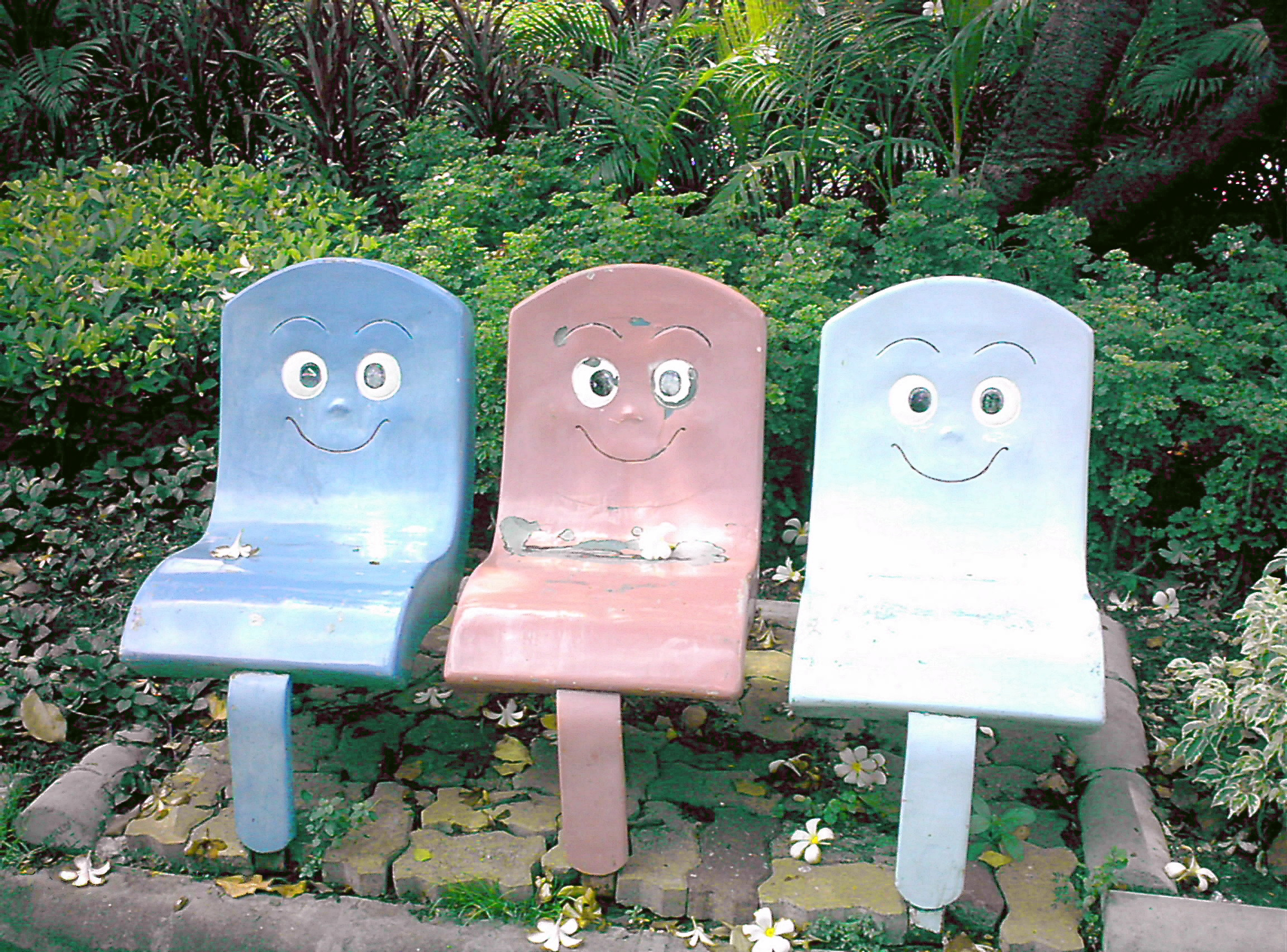 Chair, Haw Par Playground at Lumpini Park, Bangkok, Thailand. 中文（香港）: 泰國，曼谷，巴吞旺縣，是樂園，虎豹兒童遊樂場，冰條型的座椅。